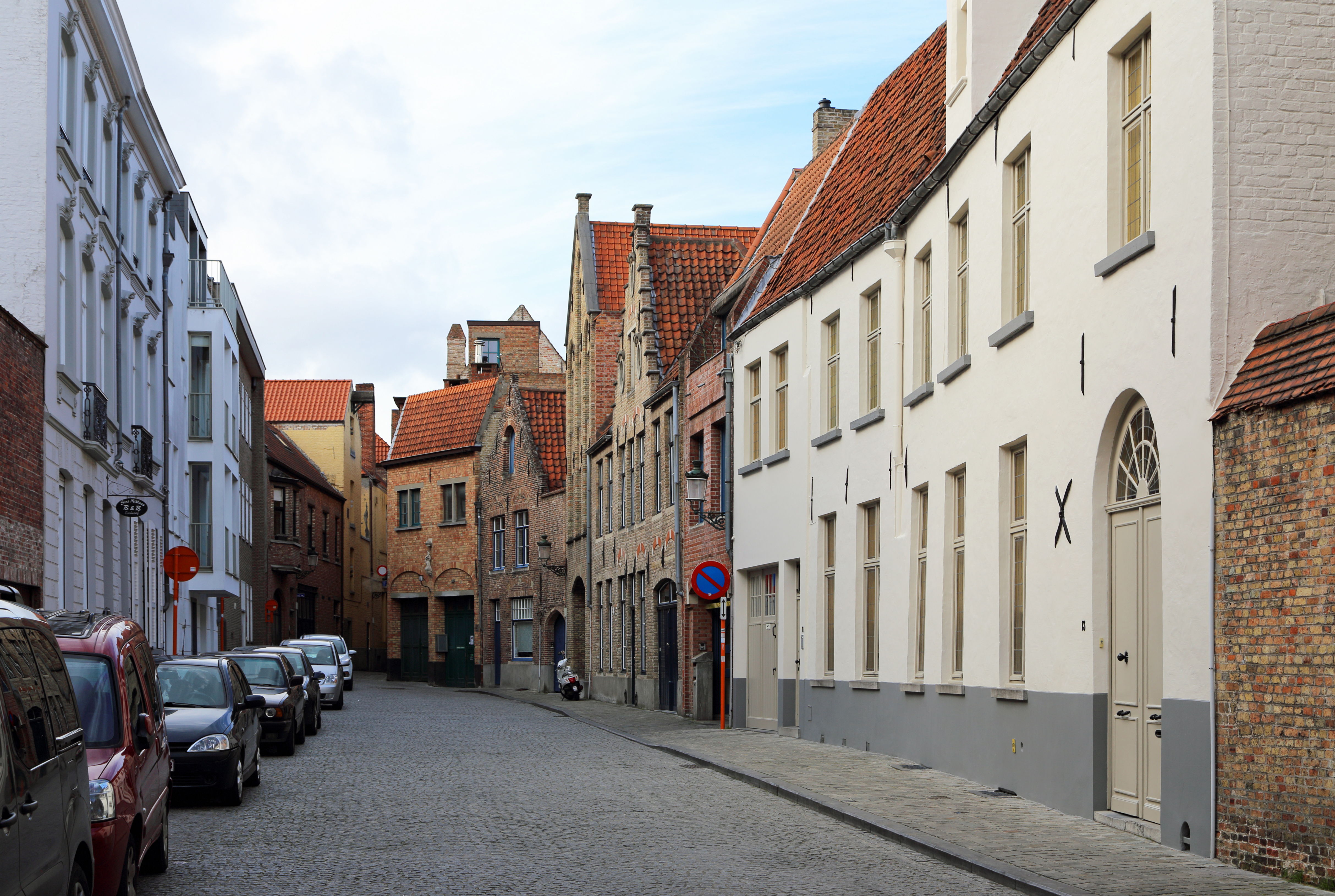 Bruges (Belgium): Sint-Niklaasstraat